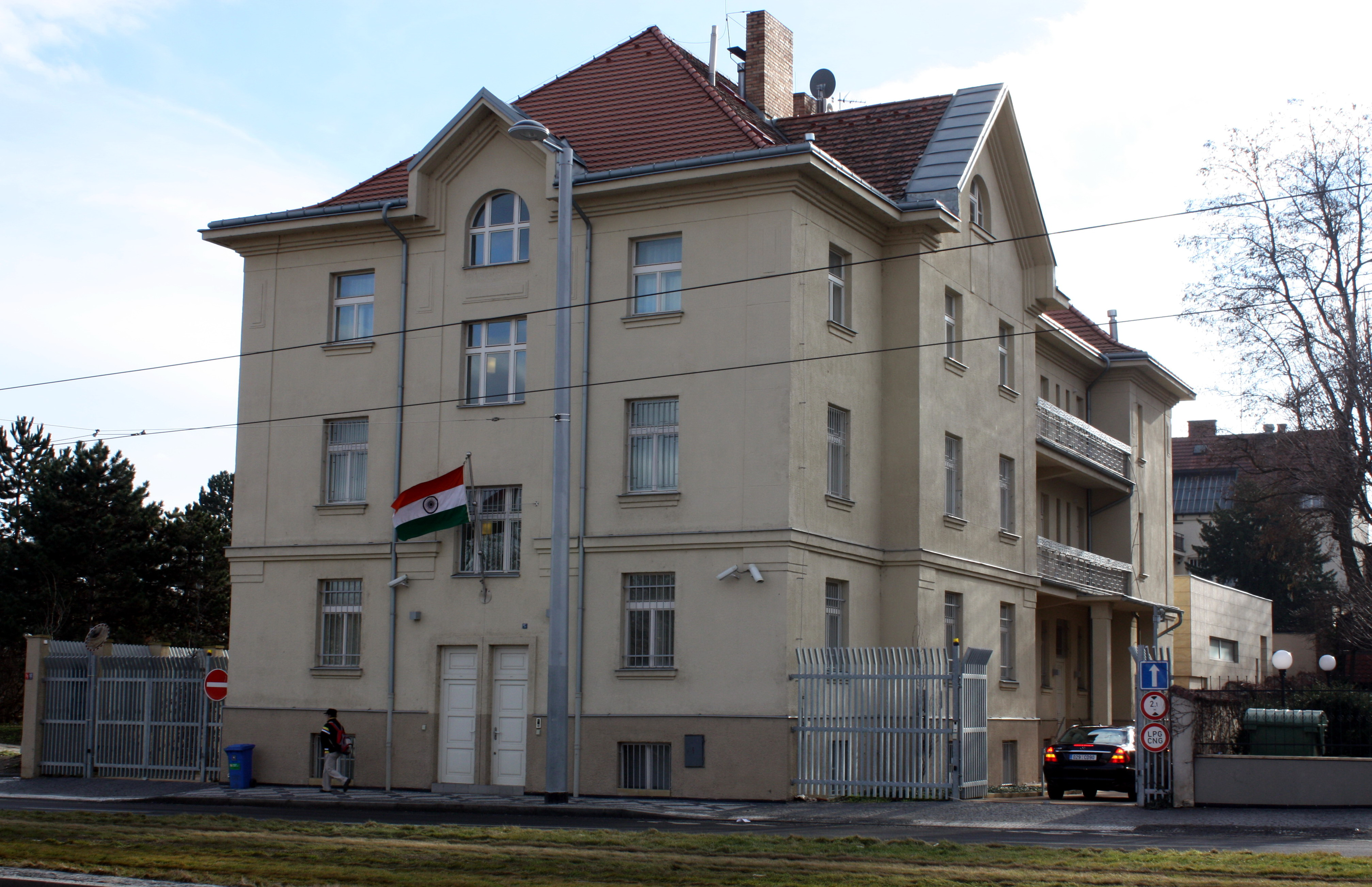 Embassy of India in Prague - Letná, Czechia.